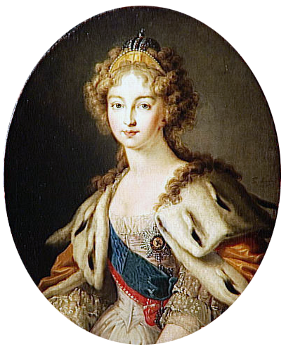 Portrait of Elisabeth Alexeievna Tsarina of Russia